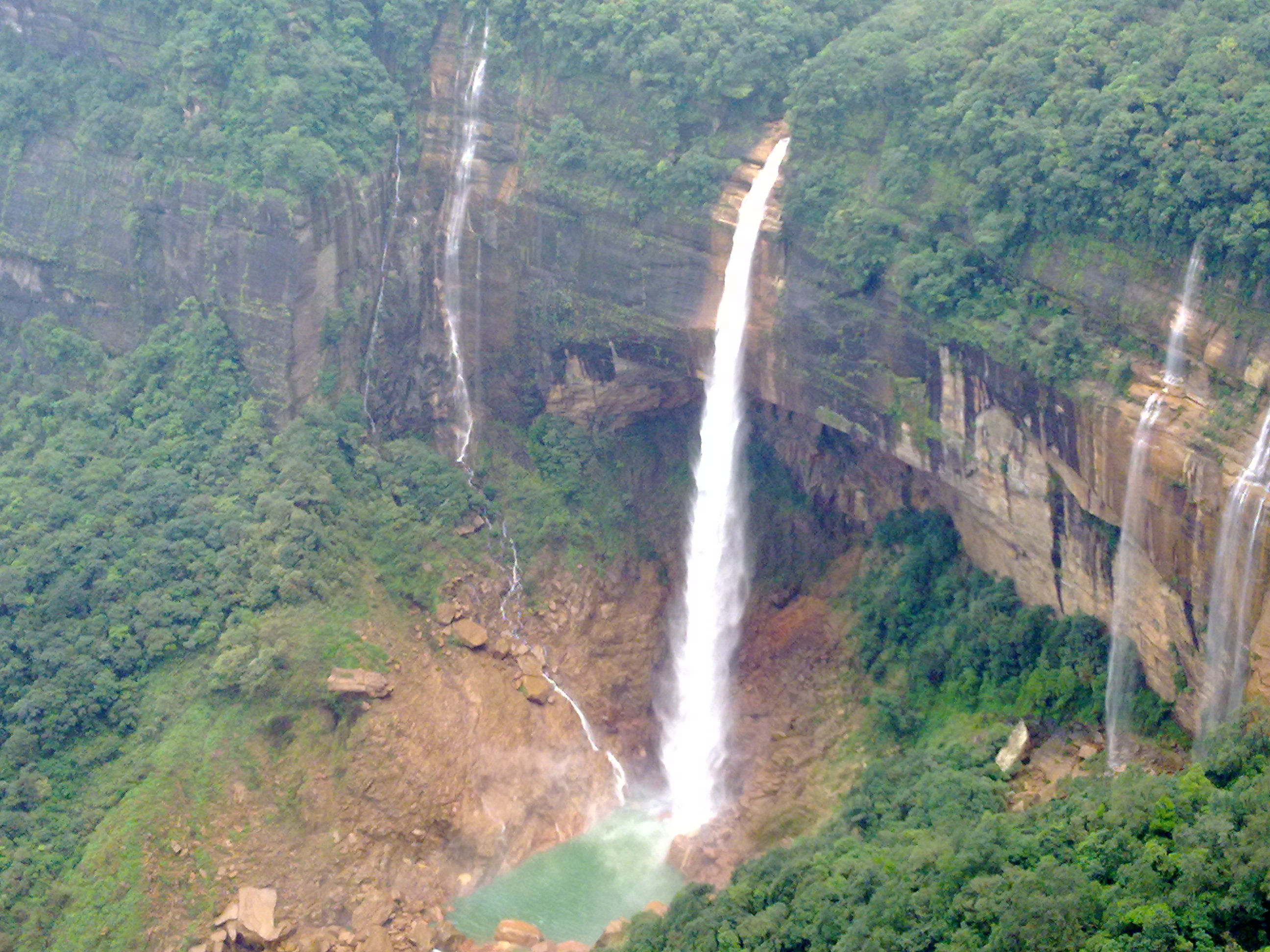 Nohkalikai Fall, Meghalaya, India.